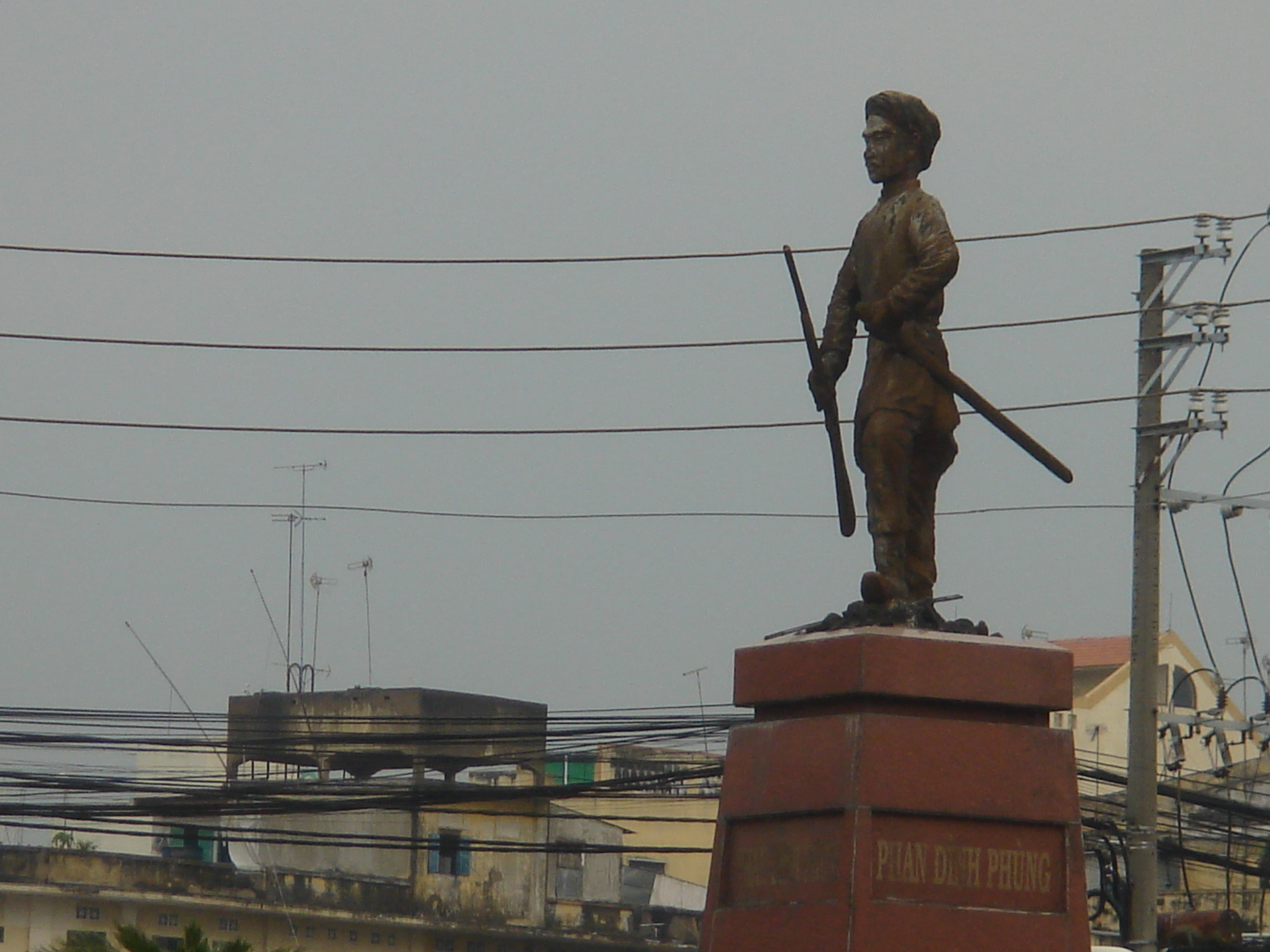 Statue of Phan Dinh Phung, a Vietnamese revolutionary